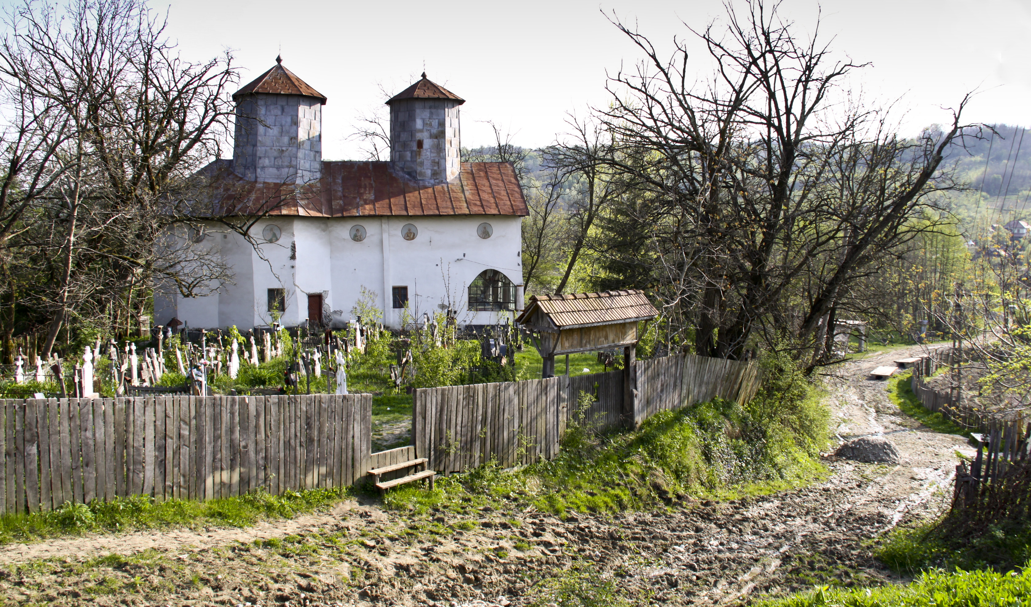 Olteanca-Marineşti, Vâlcea county, Romania: the wooden church.